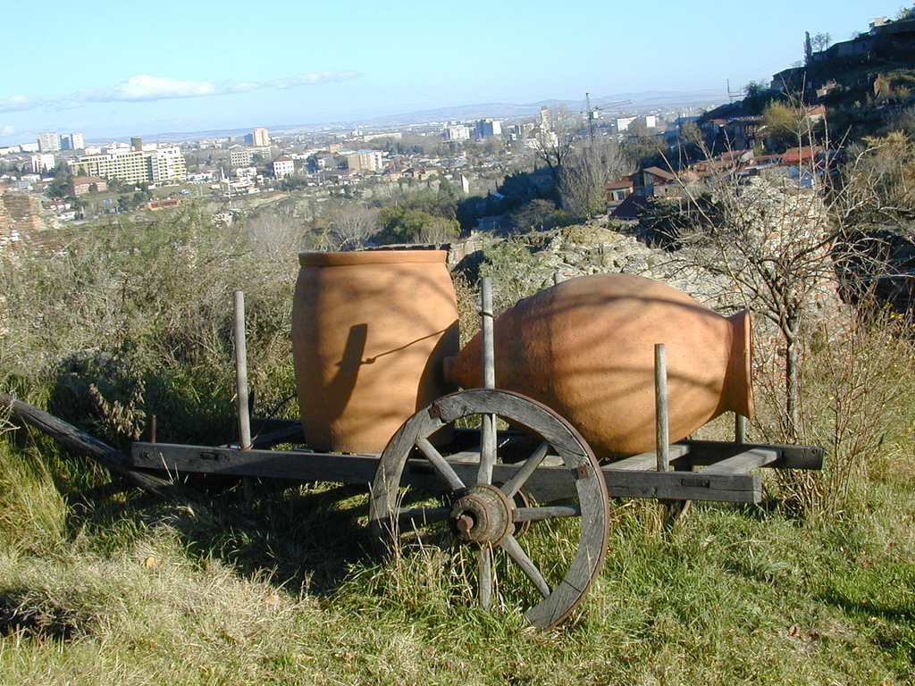 Jug (kvevri in georgian) for making wine